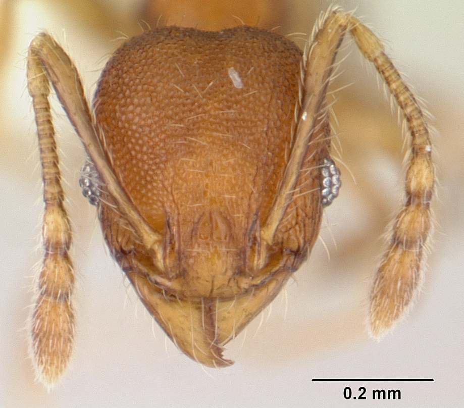 Head view of ant Pheidole flavens specimen casent0178022.